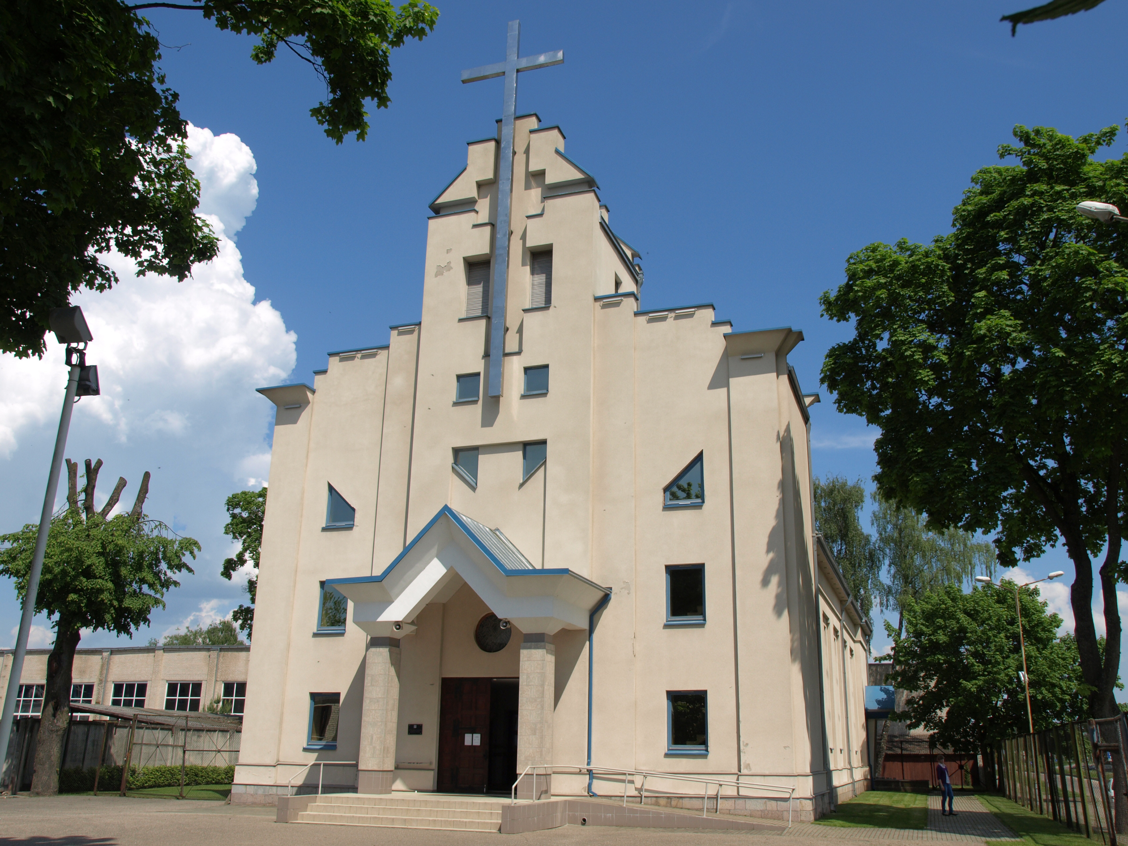 Alytus Saint Casimir church, Alytus, Lithuania